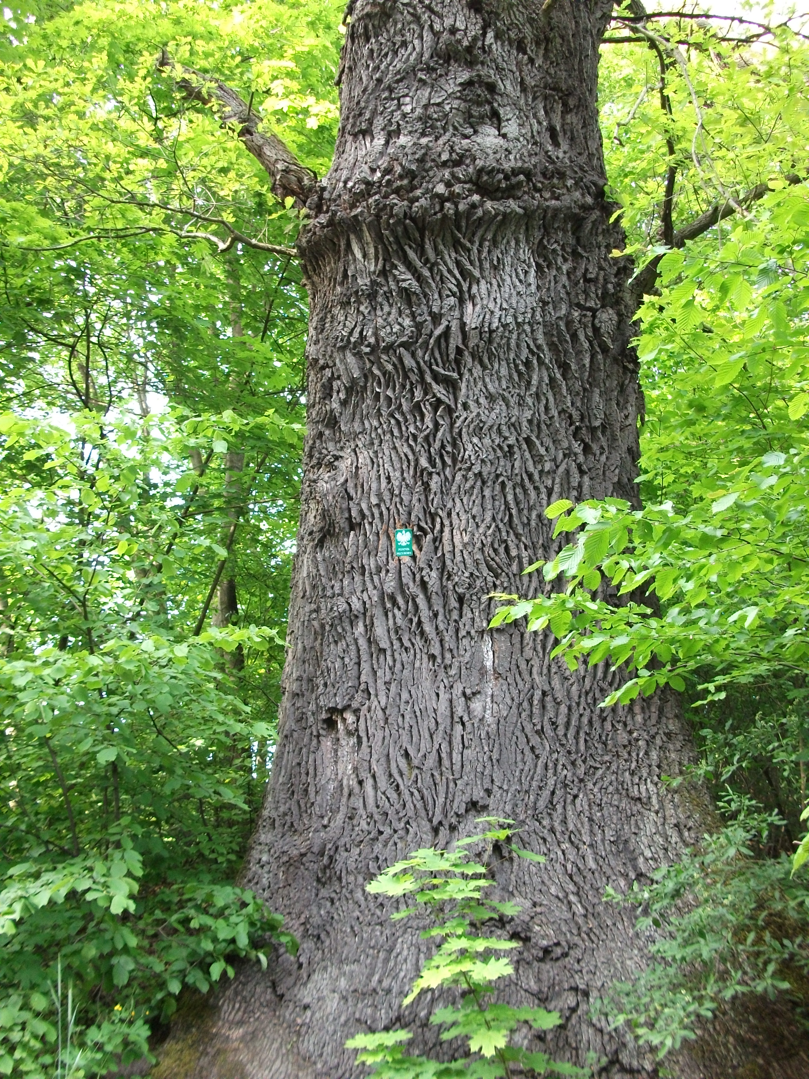 Nature Reserve Dolina Osy, Gruta community